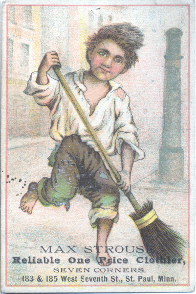 Persistent URL: Subject (TGM): Children; Boys; Child labor; Child laborers; Children doing housework; Children's clothing & dress; Poverty; Street cleaning; Street maintenance & repair; Clothing stores; Clothing & dress